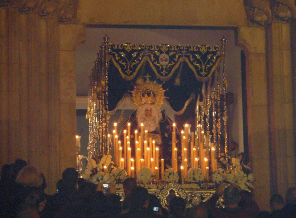 Salida de Nuestra Señora María Santísima de los Dolores en la noche-madrugada de Jueves Santo.